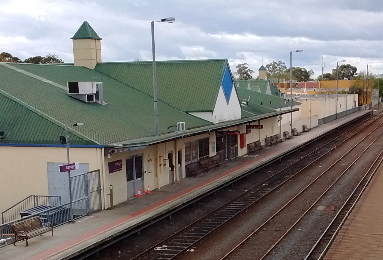 Traralgon railway station platform.